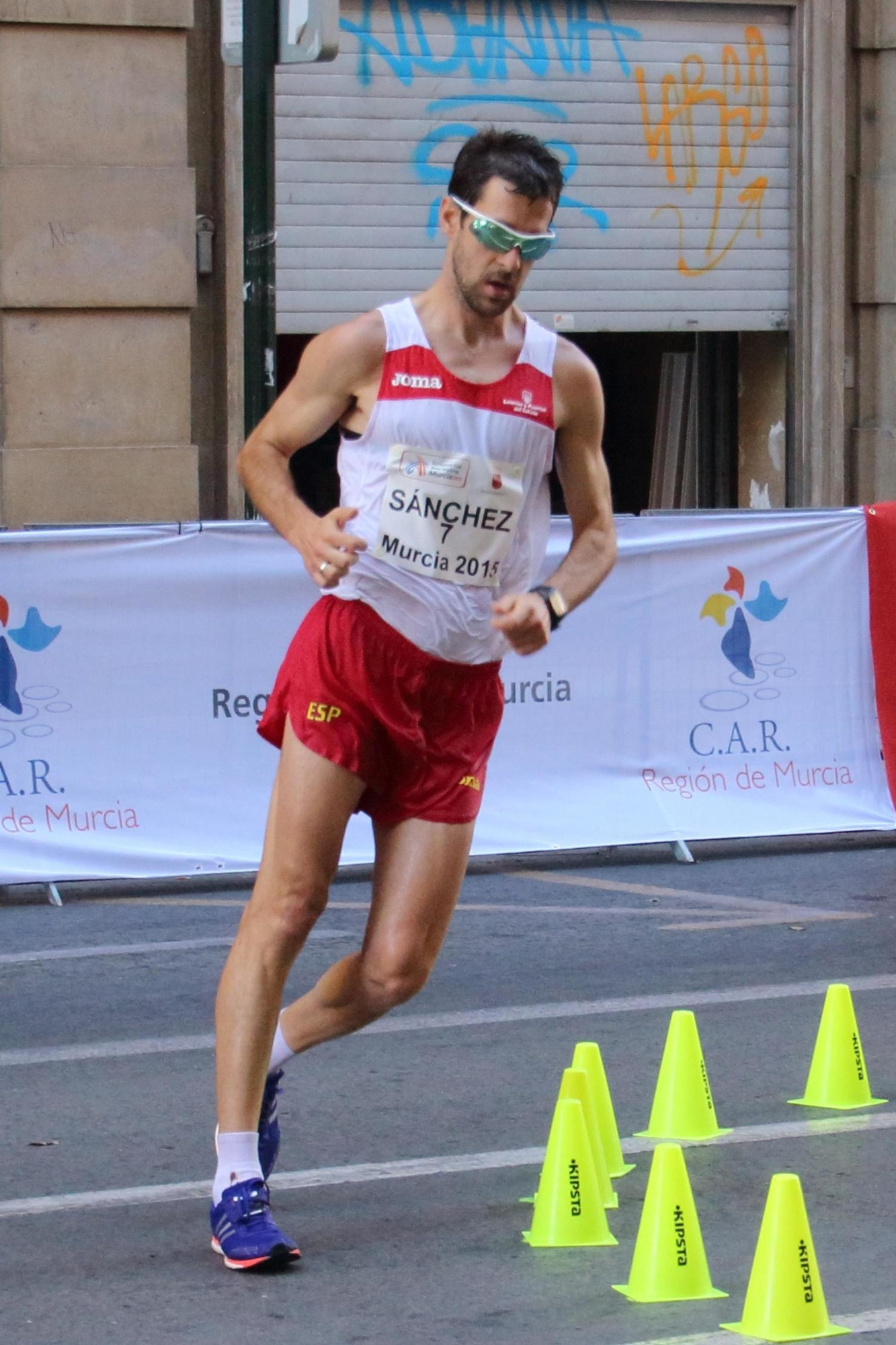 Benjamín Sánchez, spanish race walker, in the European Cup Race Walking 2015 (Murcia, Spain).